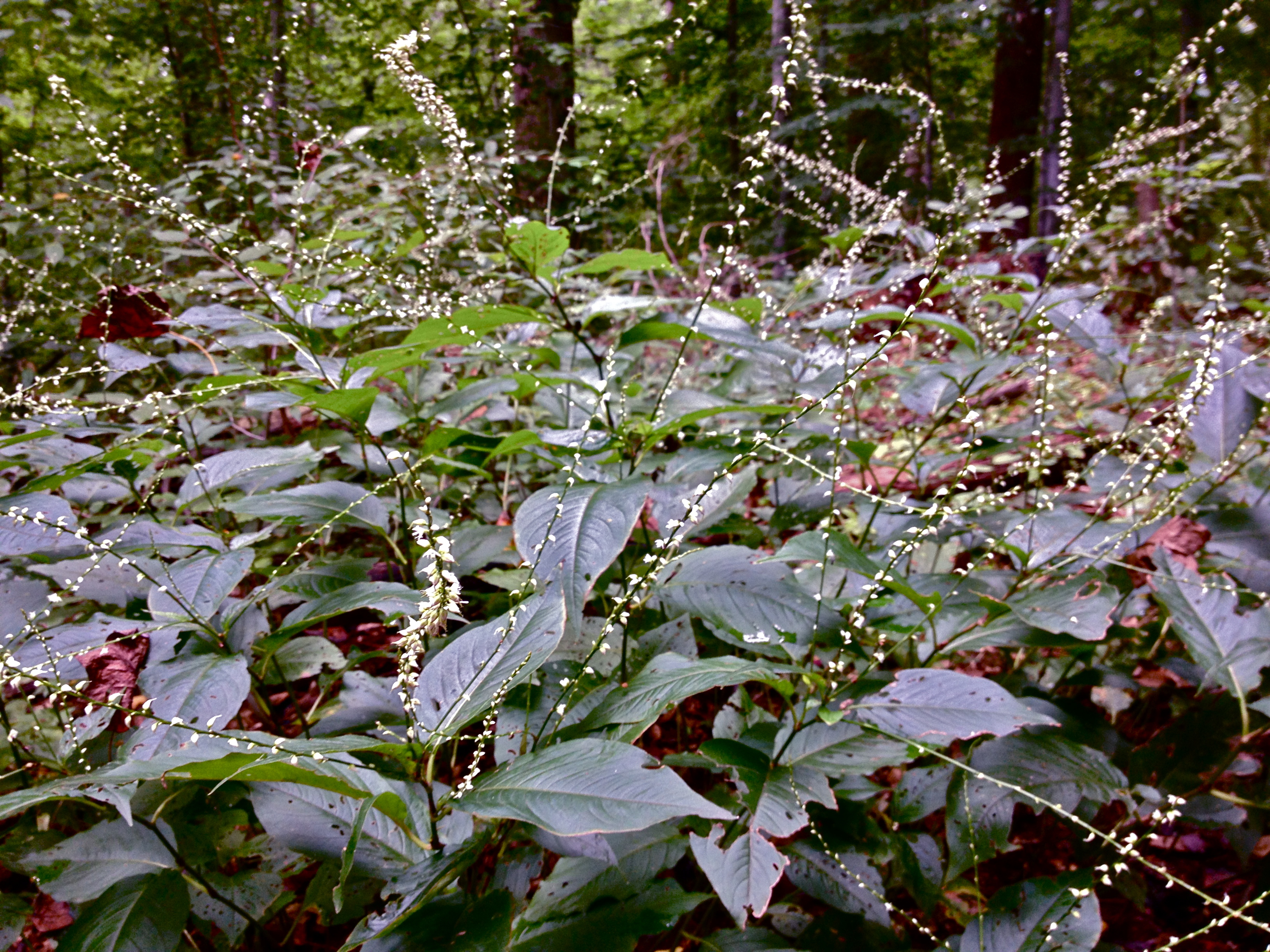 Photo of Polygonum virginianum in flower. This is a native plant growing wild in Scotts Run Nature Preserve, Fairfax county Virginia, USA. This species is a member of the Polygonaceae family. This species was recently renamed Persicaria virginiana.